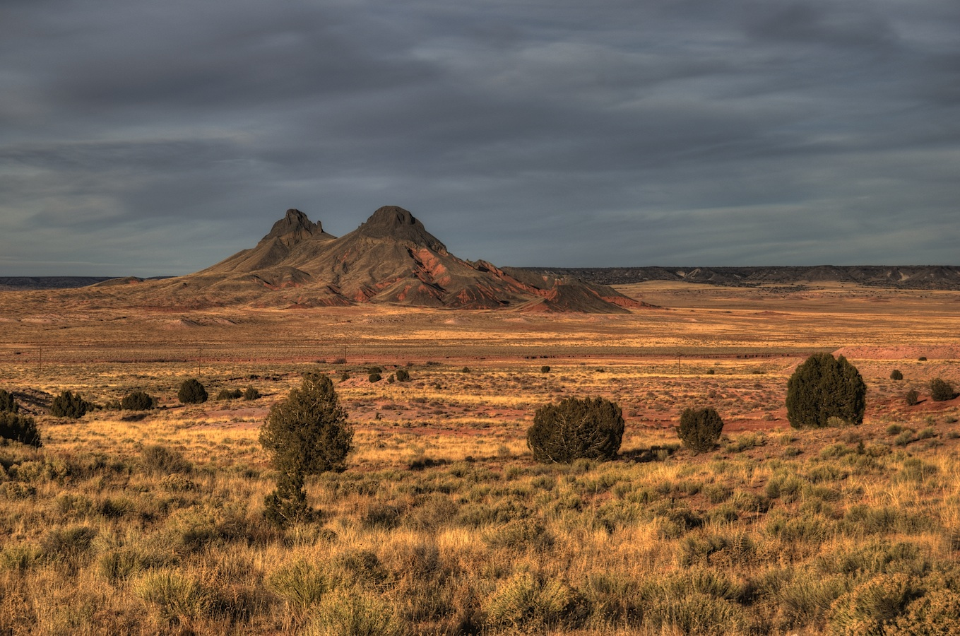 Hopi Buttes — northeast Arizona. This was taken about 30 miles southeast of Hopi First Mesa.